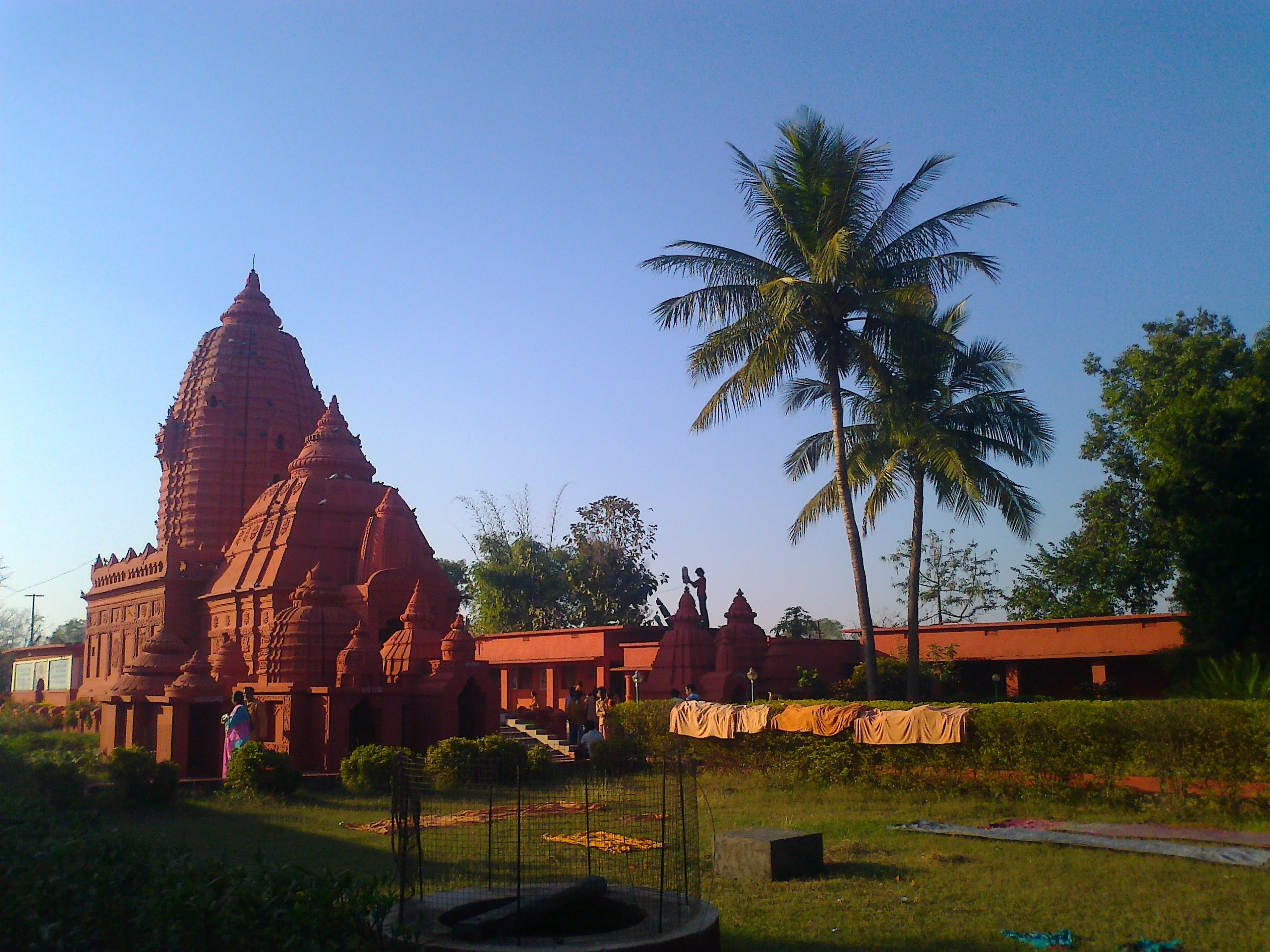 This shrine is very famous as its god is a poet.His name is "Santha Bhimabhoi".It is situated in a remote place and donot have good communication.But one can see nice landscapes while travelling.It just like "Mecca" for Alekha religion people.There are many interesting local stories regarding this place.Thousands of people gather here on eve of chaitra purnima in jan-feb.